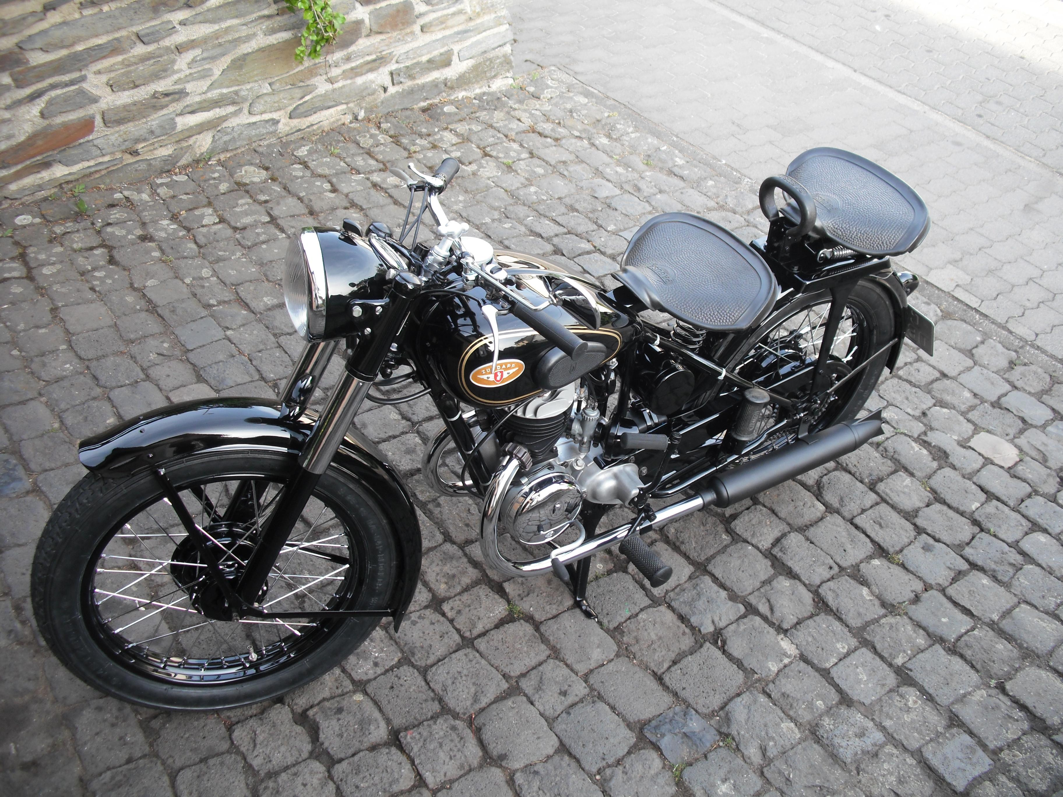 Zündapp